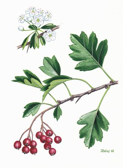 This plant is Crataegus monogyna